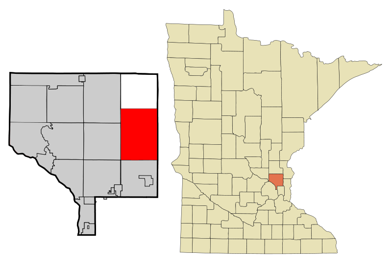 This map shows the incorporated and unincorporated areas in Anoka County, highlighting Columbus in red. This file has been updated to reflect the recent incorporation of new municipalities.